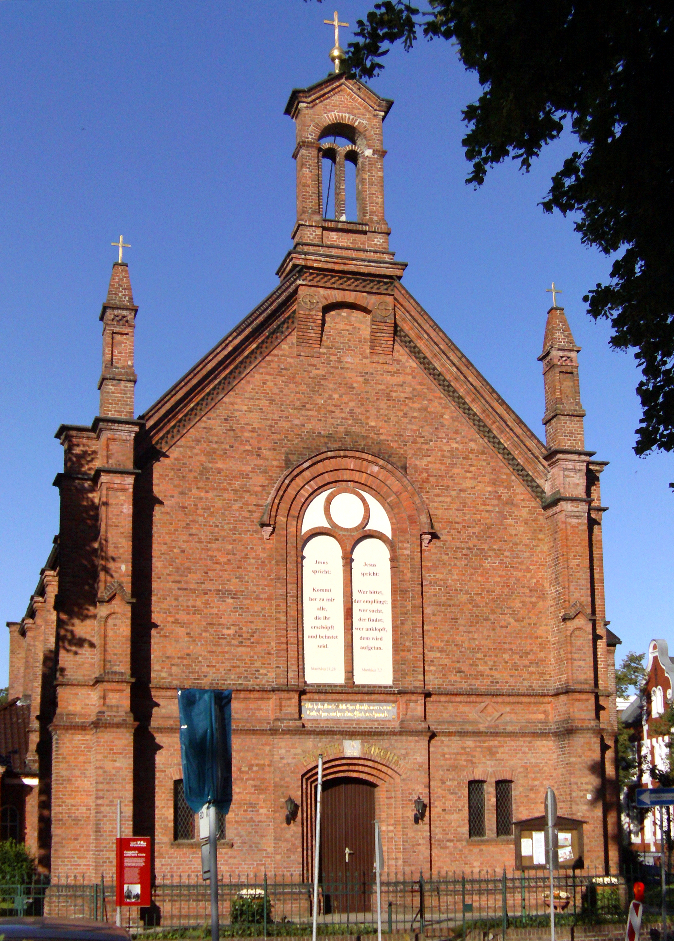 Street view of the Lutheran church building at Fuerstenwalde (Spree), Germany. The building has been completed in 1883. It is an officially recognized landmark of Fuerstenwalde.